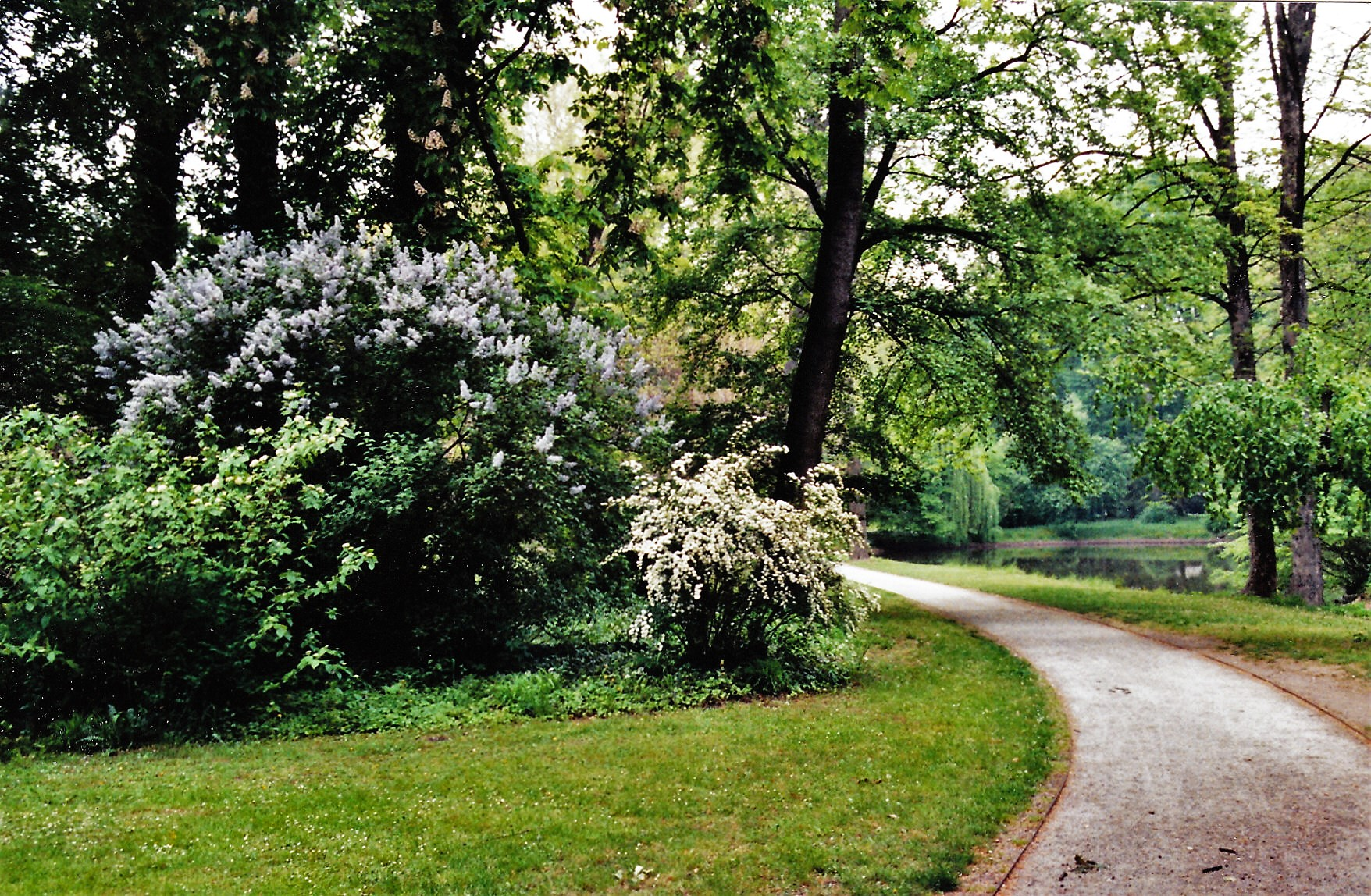 Kroměříž Bishop's Palace: The adjacent Park